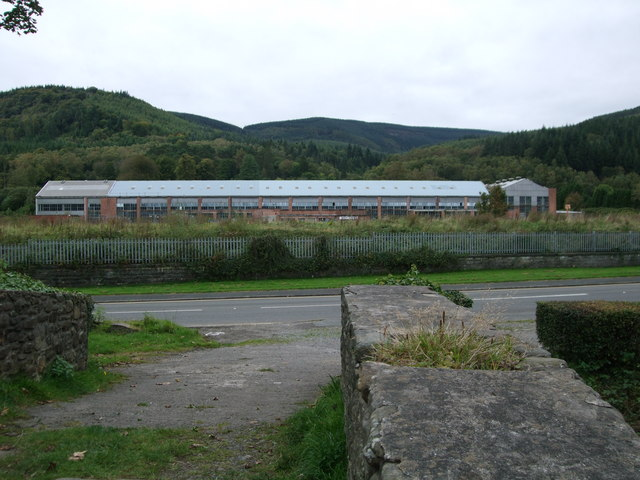 Rheola Works Now the headquarters of a building salvage company. Photo taken from alongside Neath Canal.